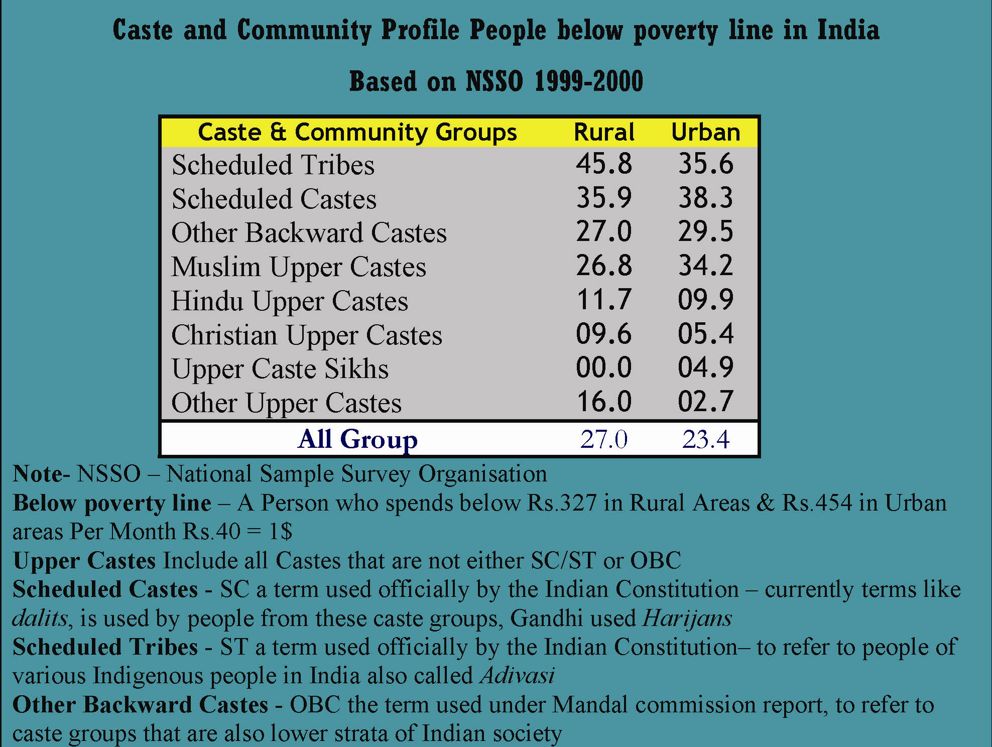 caste and community profile of people below poverty line India